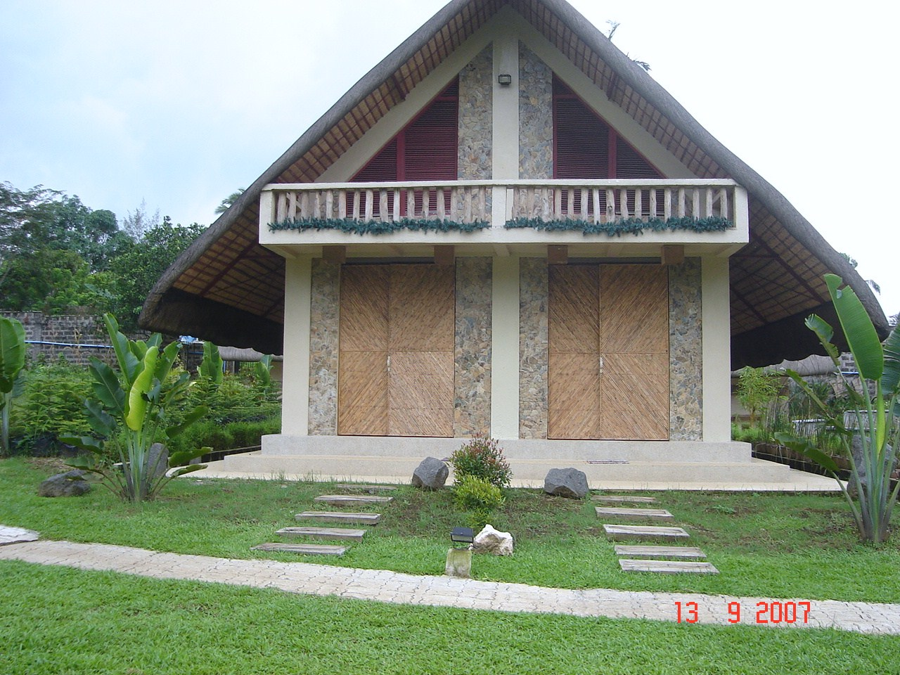 A photo from the Oasis of Prayer, an annex/retreat location of the Rogationist College of Silang, Cavite, Philippines